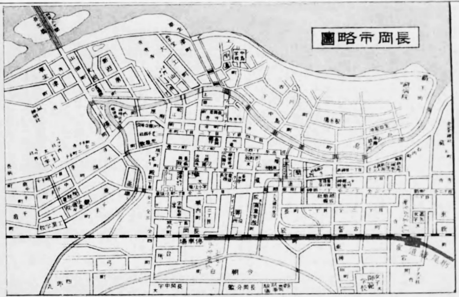 Brief map of Nagaoka City in Taishō era